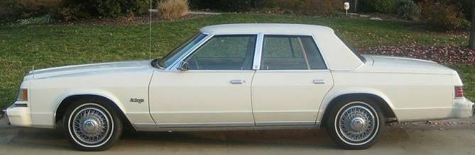 1979 Dodge St. Regis sedan